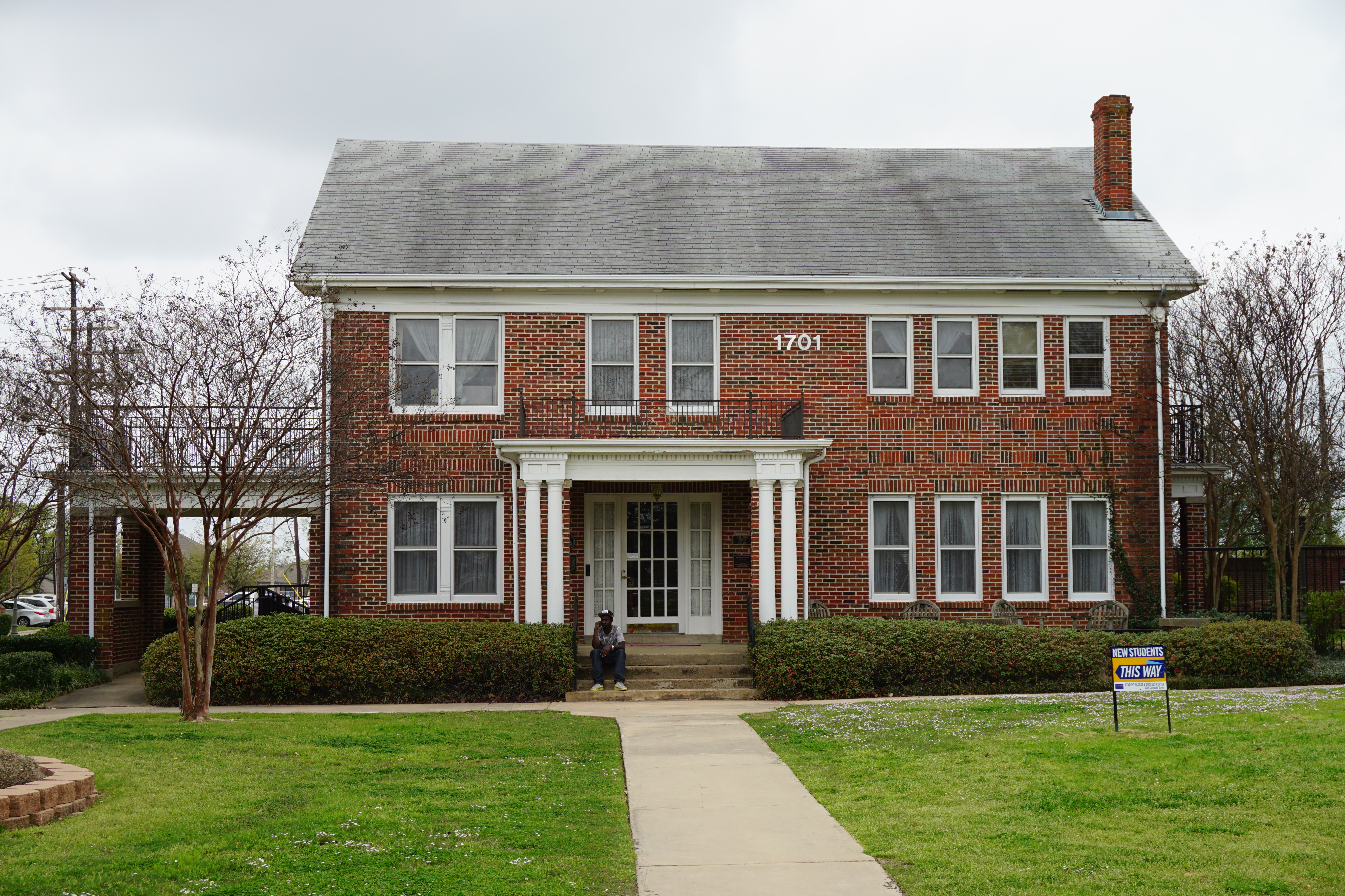 Heritage House on the campus of Texas A&M University–Commerce in Commerce, Texas (United States).